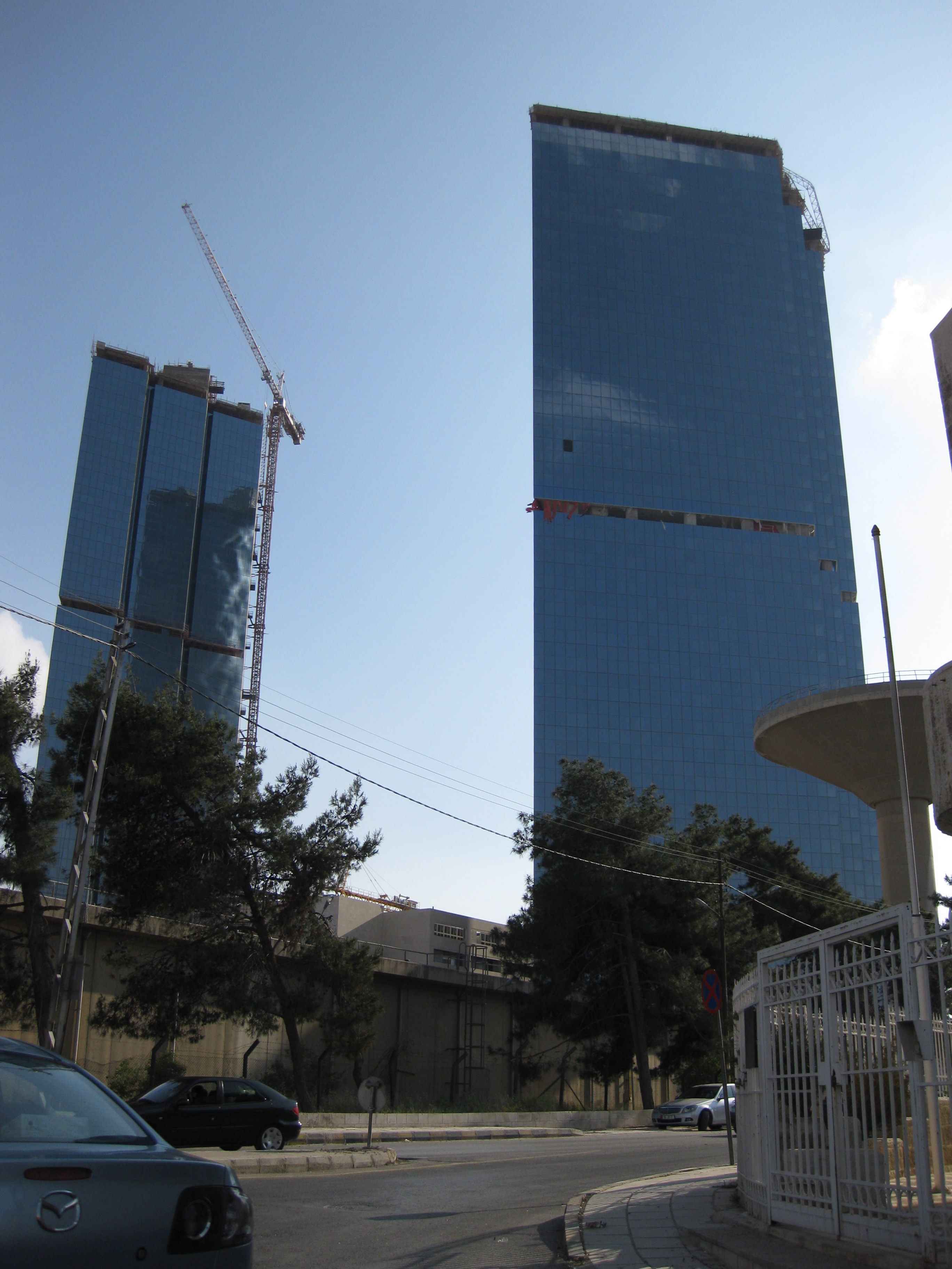 The Jordan Gate Towers